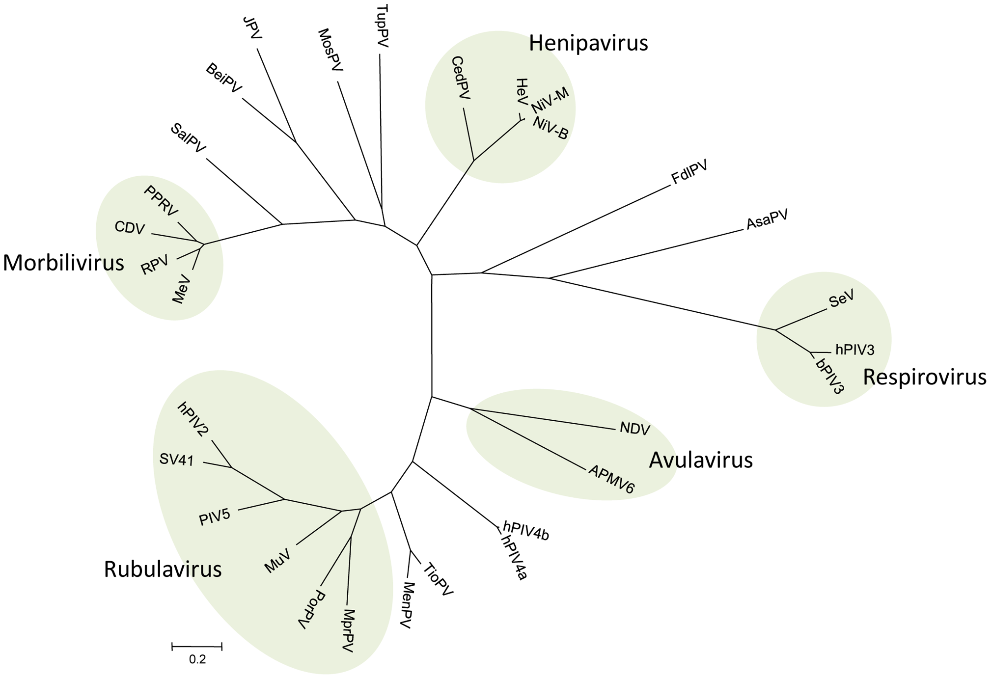 Phylogenetic tree based on the N protein sequences of selected paramyxoviruses. Virus name (abbreviation) and GenBank accession numbers are as follows: Avian paramyxovirus 6 (APMV6) AY029299; Atlantic salmon paramyxovirus (AsaPV) EU156171; Beilong virus (BeiPV) DQ100461; Bovine parainfluenza virus 3 (bPIV3) AF178654; Canine distemper virus (CDV) AF014953; Cedar virus (CedPV) JQ001776; Fer-de-lance virus (FdlPV) AY141760; Hendra virus (HeV) AF017149; Human parainfluenza virus 2 (hPIV2) AF533010; Human parainfluenza virus 3 (hPIV3) Z11575; Human parainfluenza virus 4a (hPIV4a) AB543336; Human parainfluenza virus 4b (hPIV4b) EU627591; J virus (JPV) AY900001; Menangle virus (MenPV) AF326114; Measles virus (MeV) AB016162; Mossman virus (MosPV) AY286409; Mapeura virus (MprPV) EF095490; Mumps virus (MuV) AB000388; Newcastle disease virus (NDV) AF077761; Nipah virus, Bangladesh strain (NiV-B) AY988601; Nipah virus, Malaysian strain (NiV-M) AJ627196; Parainfluenza virus 5 (PIV5) AF052755; Peste-des-petits-ruminants (PPRV) X74443; Porcine rubulavirus (PorPV) BK005918; Rinderpest virus (RPV) Z30697; Salem virus (SalPV) AF237881; Sendai virus (SeV) M19661; Simian virus 41 (SV41) X64275; Tioman virus (TioPV) AF298895; Tupaia paramyxovirus (TupPV) AF079780.